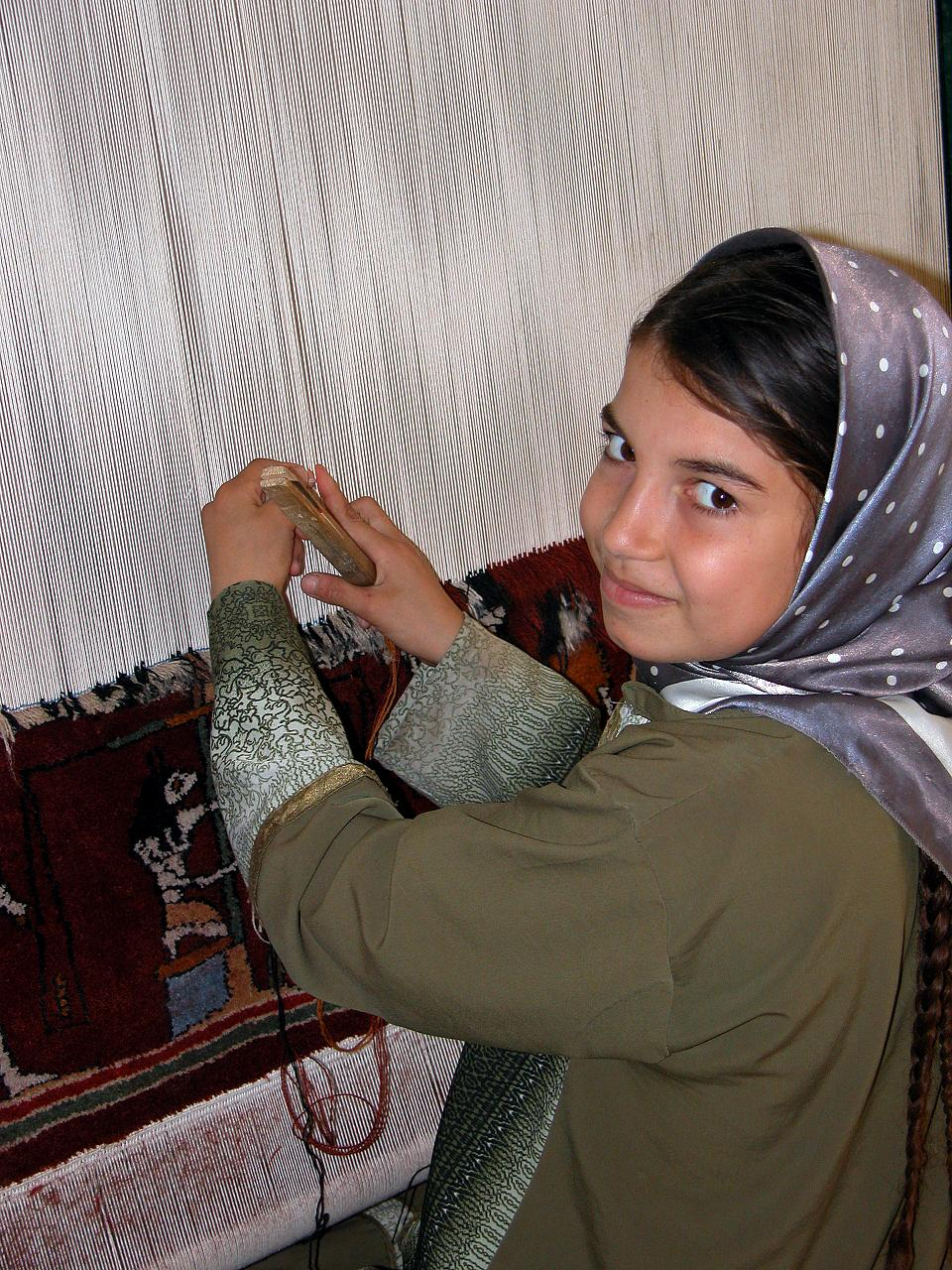 This girl would weave the rugs, her hands would move so fast that it was hard to see how she did it. A man would then cut the threads to the proper height using special scissors.